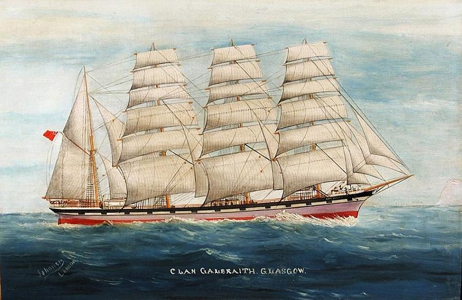 Ship Portrait of the Scotish four-masted Barque *Clan Galbraith of Glasgow* at sea ca. 1895 - the large vessel is shown under full sail at the open sea